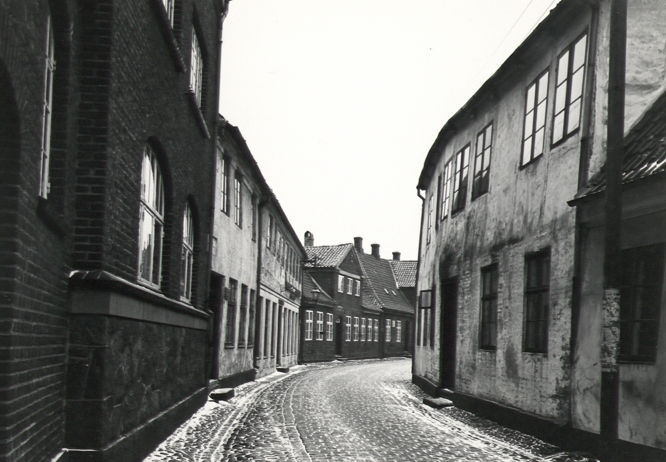 Skolegade in Ribe